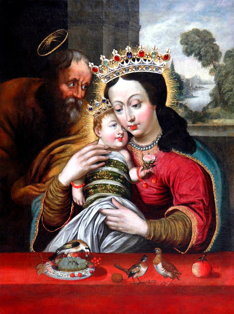 Our Lady of Dzikovia, unknown Dutch author